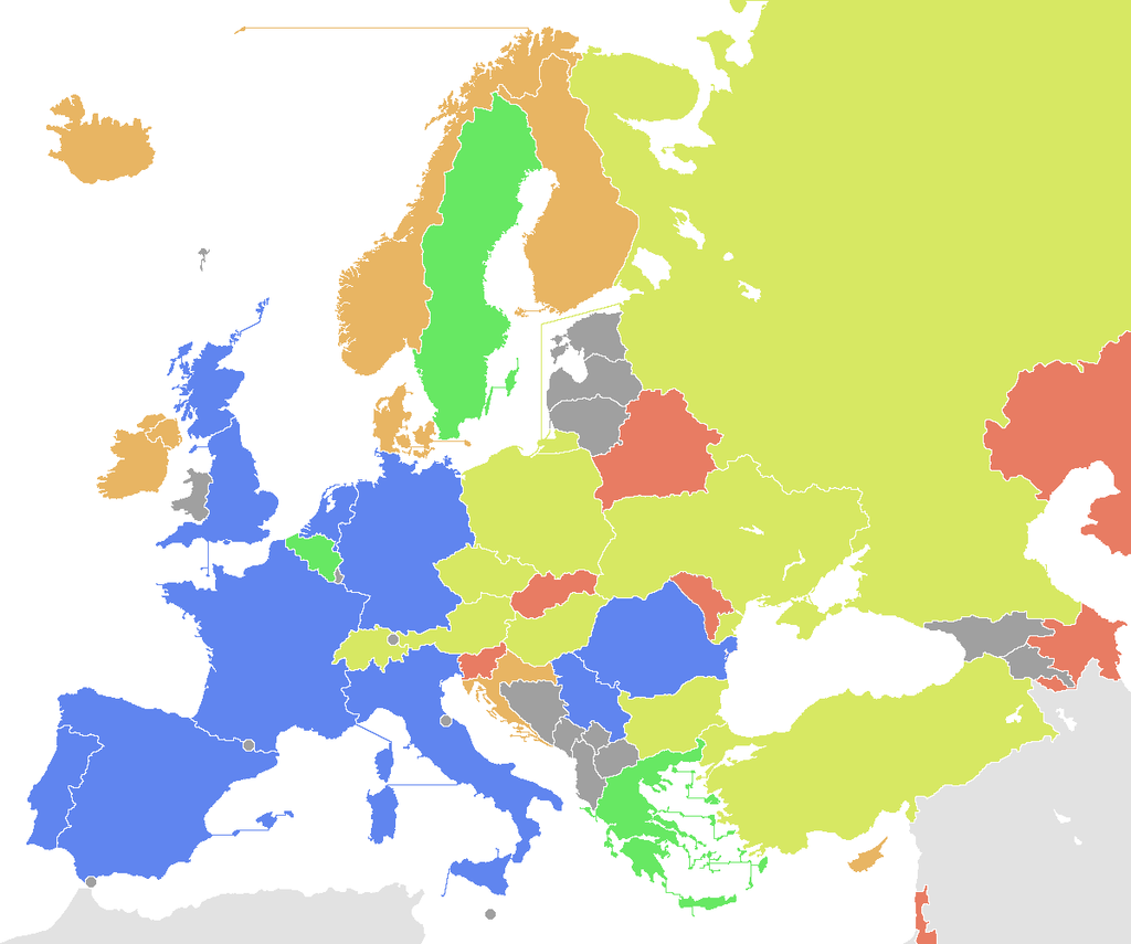 Based on File:UEFA members Champs League group stage.png (itself based on File:UEFA members Champs League group stage.gif), File:BlankMap-World-UK.png (itself based on File:BlankMap-World-v5.png) Countries are marked according to stage reached in UEFA Champions League and European Cup. Iceland, Ireland and Northern Ireland have not reached group stage on current UEFA Champions League format, but have reached round of 16 and quarterfinal on European Cup.